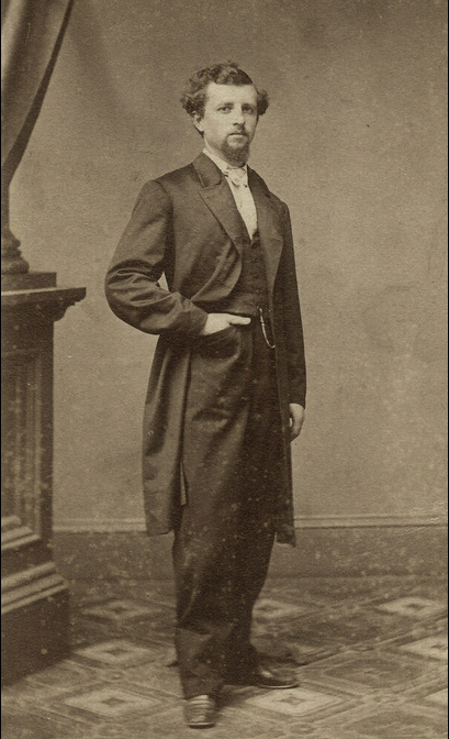 Carte de visite of German-American brewer Adolphus Busch (1839–1913)